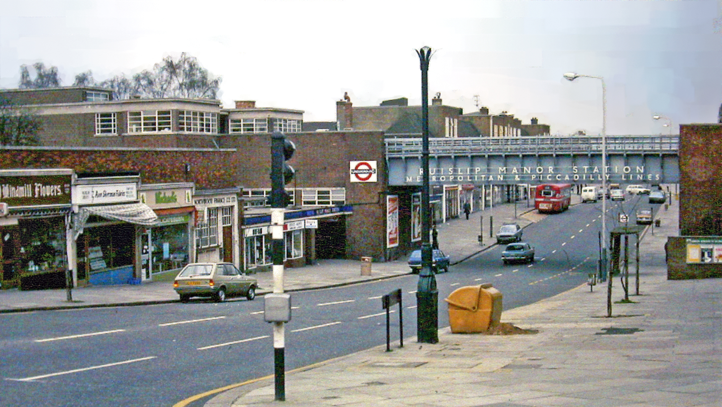 View SE at Ruislip Manor Station. London Underground system: the bridge across Victoria Road at Park Way is carrying the Metropolitan line from Baker Street via Harrow-on-the Hill (to the left) to Uxbridge (to the right), also used by Piccadilly Line trains to Uxbridge from Cockfosters via Central London and Acton Town